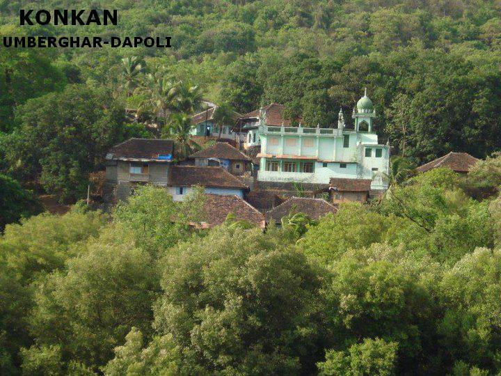 Congregational Mosque of Umberghar in Maharashtra, India.